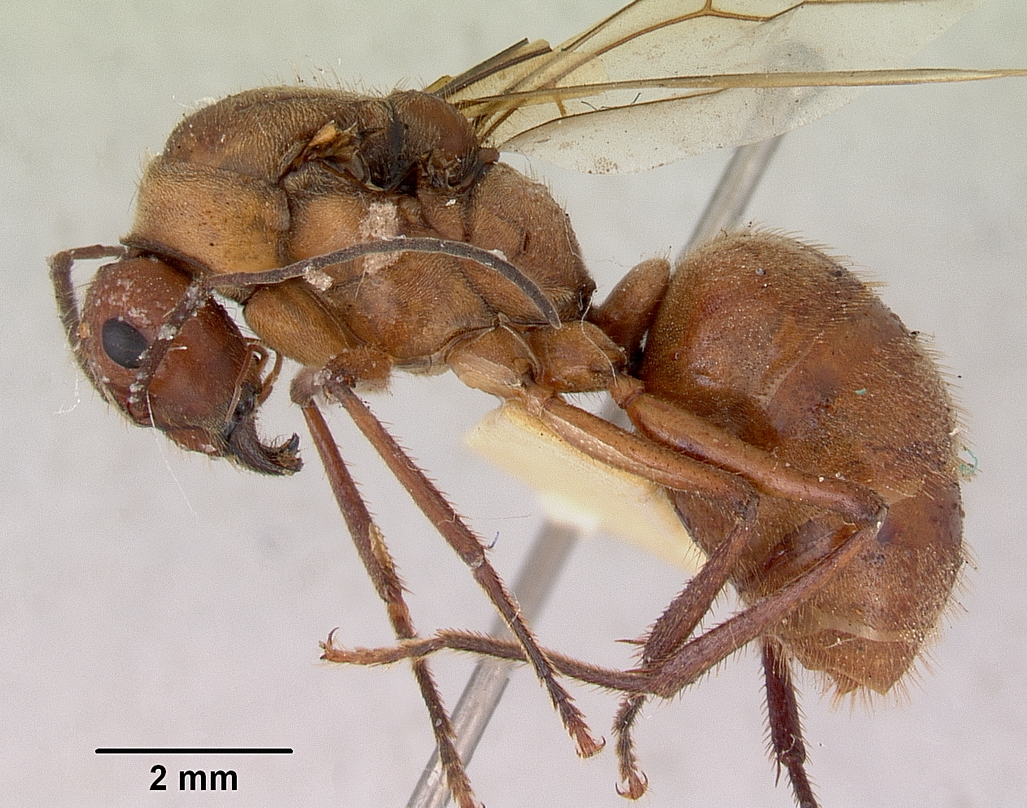 Profile view of ant Notostigma foreli specimen casent0172067.